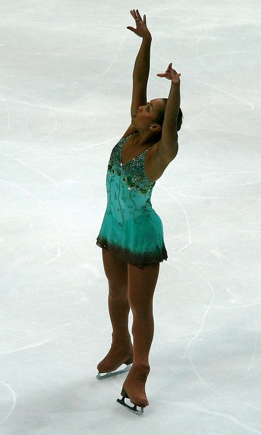 Cheltzie Lee at the 2011 World Figure Skating Championships